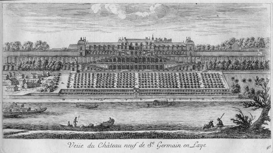 Etching named Veue du Chateauneuf de St-Germain-en-Laye